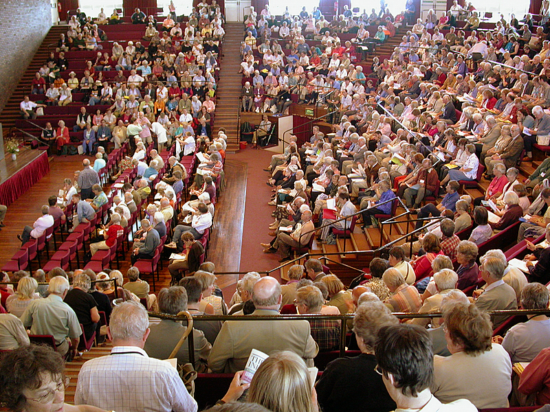 Photograph taken of Quaker meeting for business in the main hall of York University by Fran Lane (